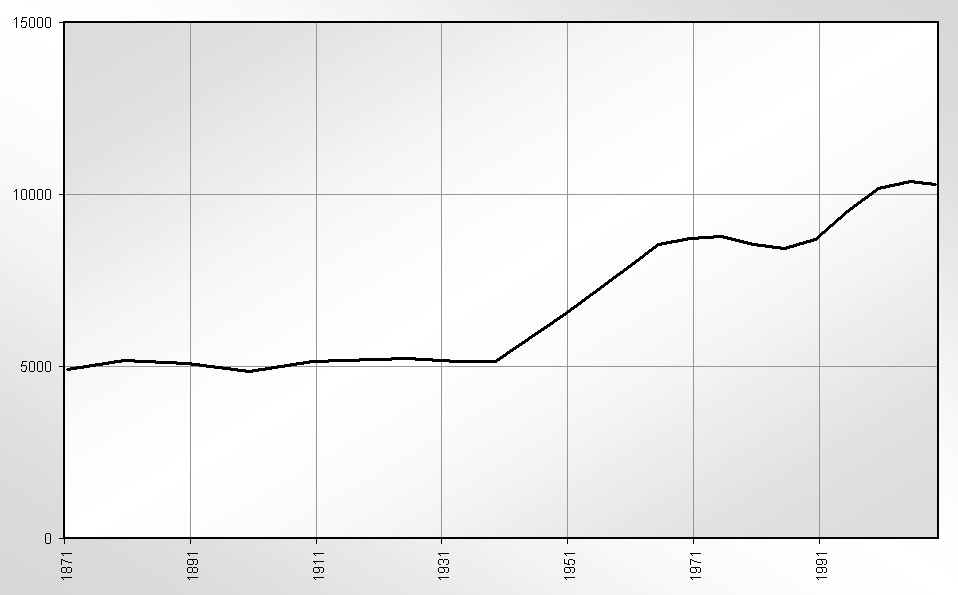 Population development of Riedlingen (1871-2009)